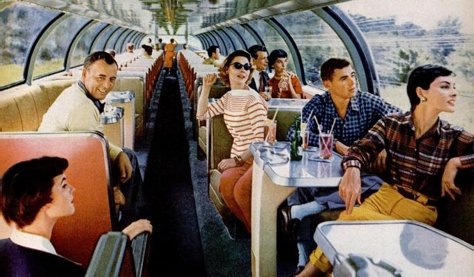 Photo of the "Big Dome" observation cars which the Santa Fe introduced on its "El Capitan" and San Francisco Chief trains in 1954. The observation dome extended over the roof of the entire car, as opposed to other domed cars whose domes occupied only a portion of the car's roof.